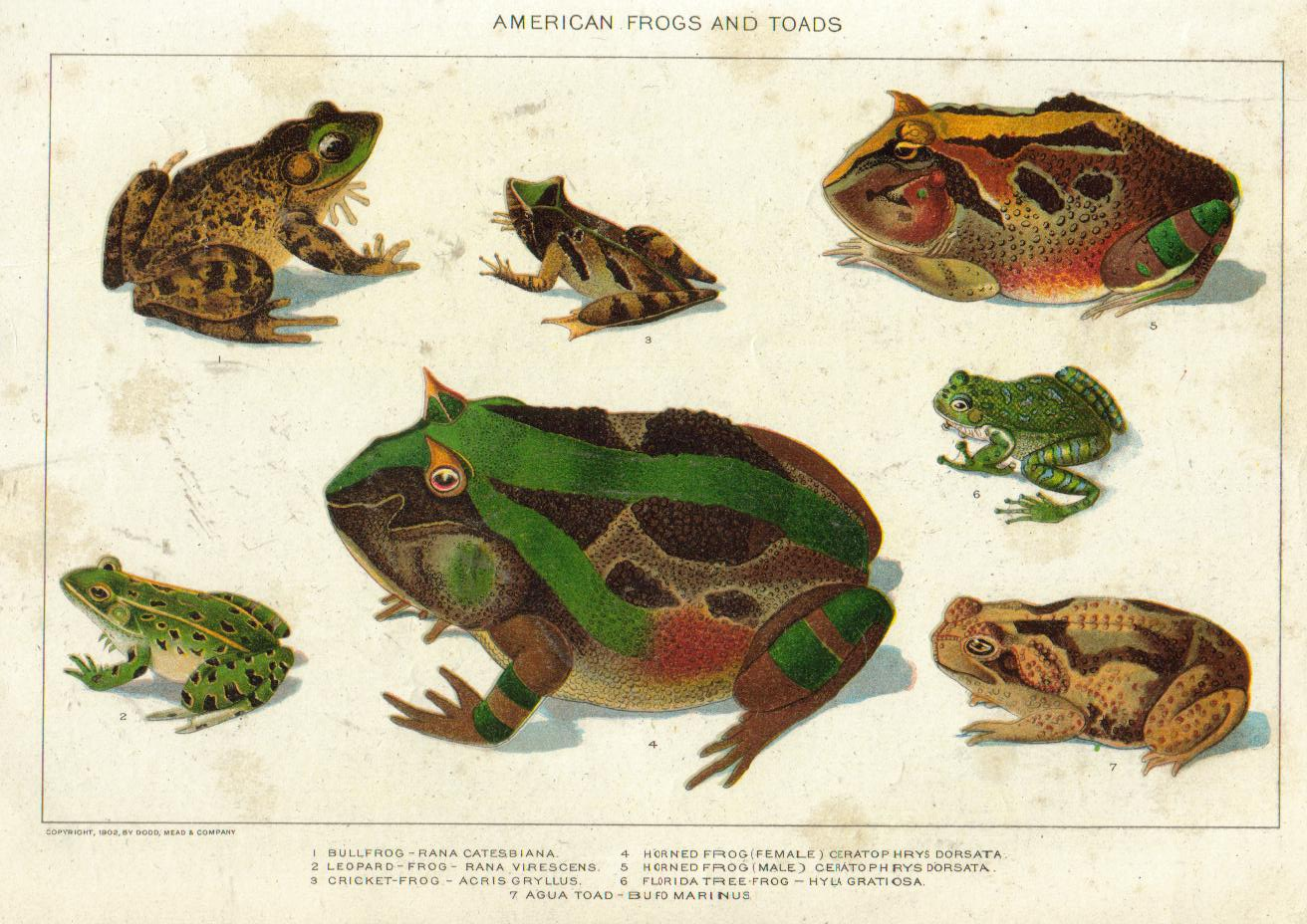 Painting of frogs and toads